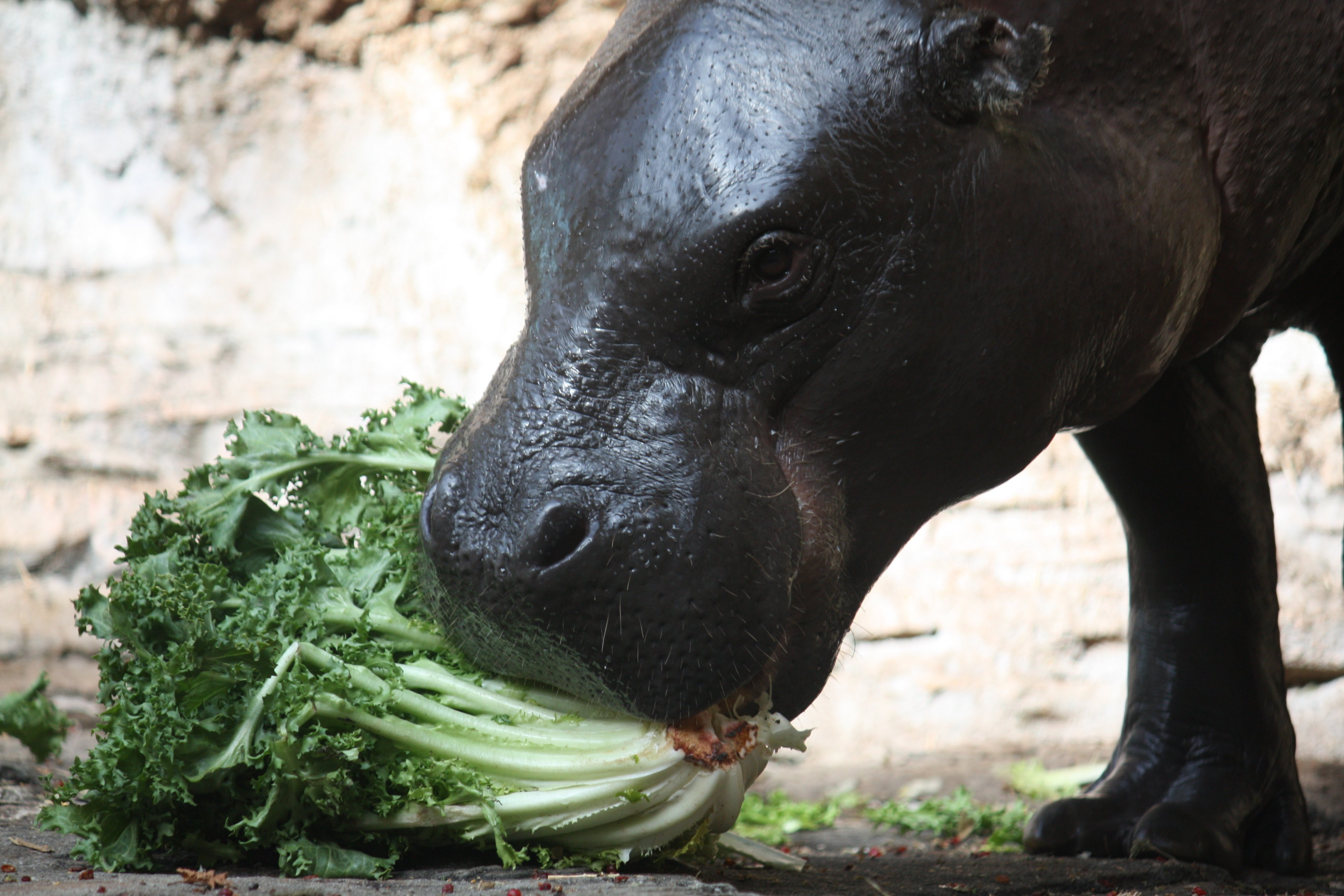 Hexaprotodon liberiensis at Louisville Zoo